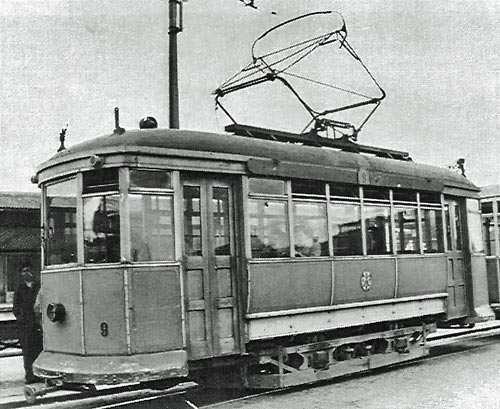 ASEA/AEG tram no. 9 in Turku, Finland